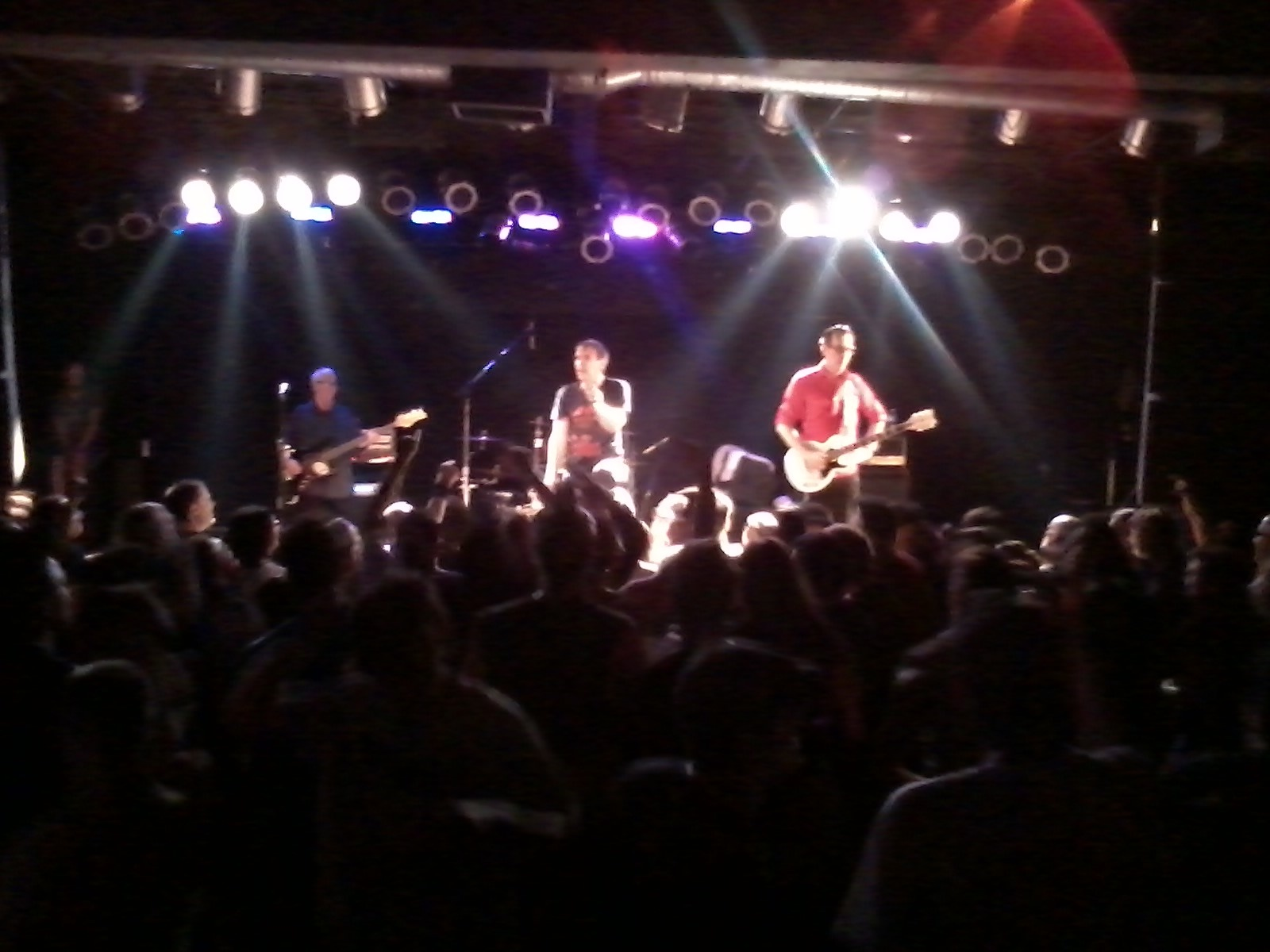 Dead Kennedys in their original lineup minus vocalist and leader Jello Biafra who is squabbling with them over royalties, on tour in 2014 as they did in 2013 and years before. By now DKs are very, very proficient at stagecraft and mastering their instruments. This only goes to show that if you live to be an old fart there are many happy returns in that. Roger Daltrey of The Who was simply mistaken. The crowd was 1/2 very active mosh pitters, I would say, some unnecessarily aggressive, and 1/2 folks standing back and taking it all in. The acoustics and the band were spot on. Skip even taunted the croud on many scores, including this being Chicago and he is from New York, the hapless Cubs, and even recited a fragment of a poem to a unison of ef-yous. Yes, it was a lovely bit of Chicago’s own Carl Sandburg. The signature moement was on the last encore piece, “Holiday in Cambodia”, when the band broke into a slow trot of “Sweet Home Alabama”, before viciously ending in the fast tune. Very much worth it, and not just to catch a bit of history.